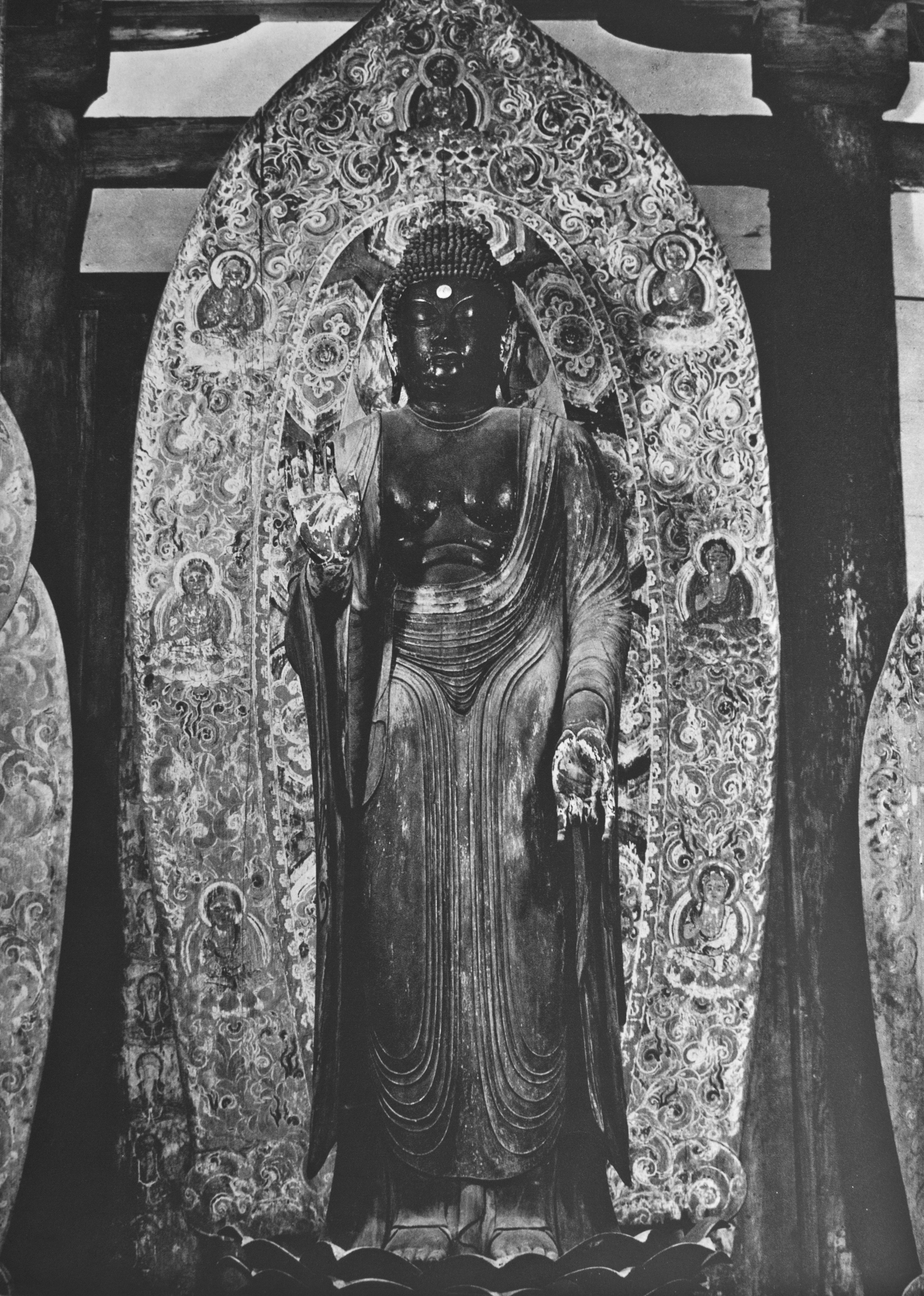 Kondo, Muroji, Nara, Japan